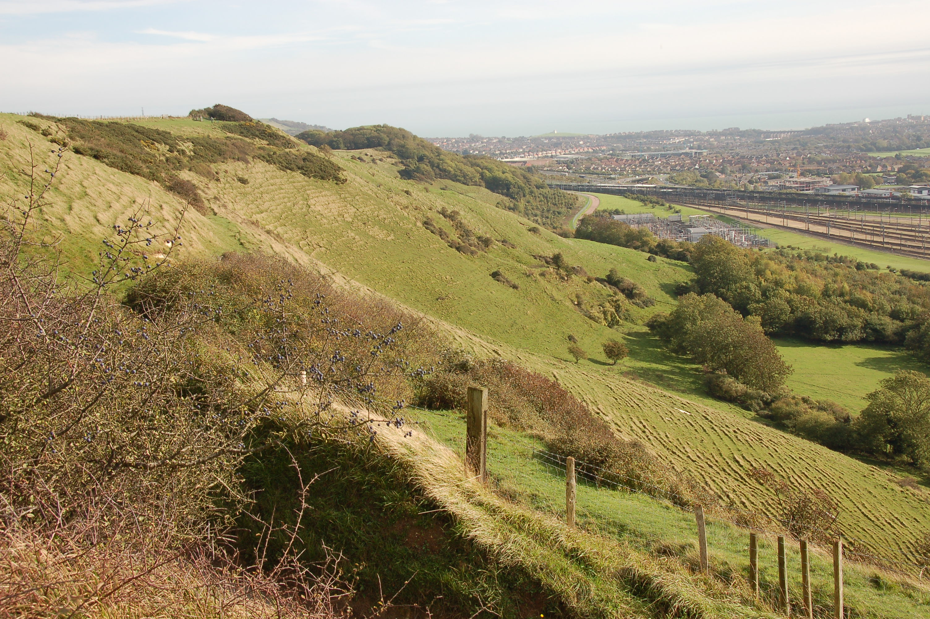 Description: North Downs above Folkestone Date: Saturday 24th March 2007